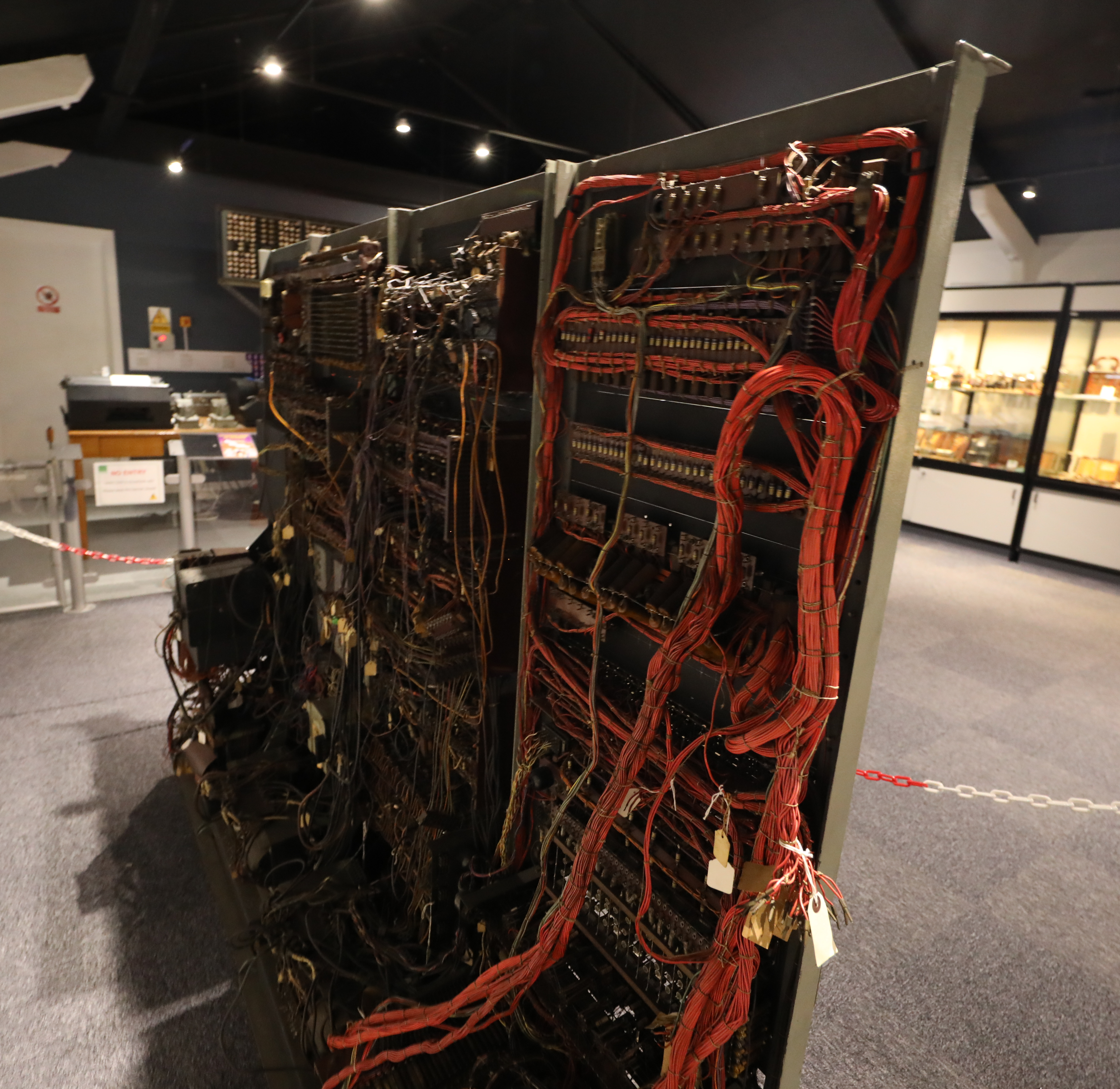 Photo of the back of the HEC 1 computer